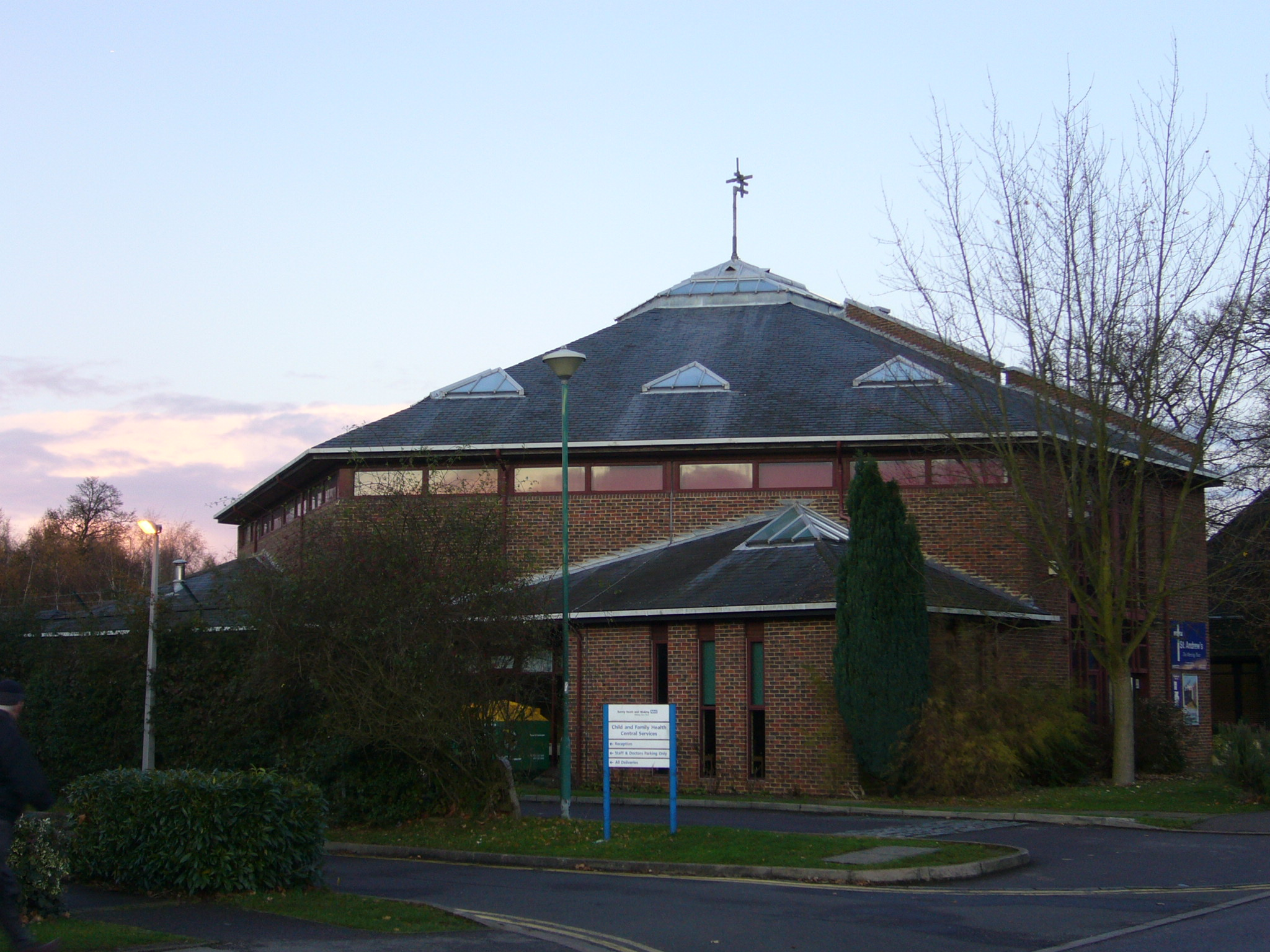 The Church of St Andrew at grid reference SU 982 586 in Goldsworth Park, Woking, Surrey.